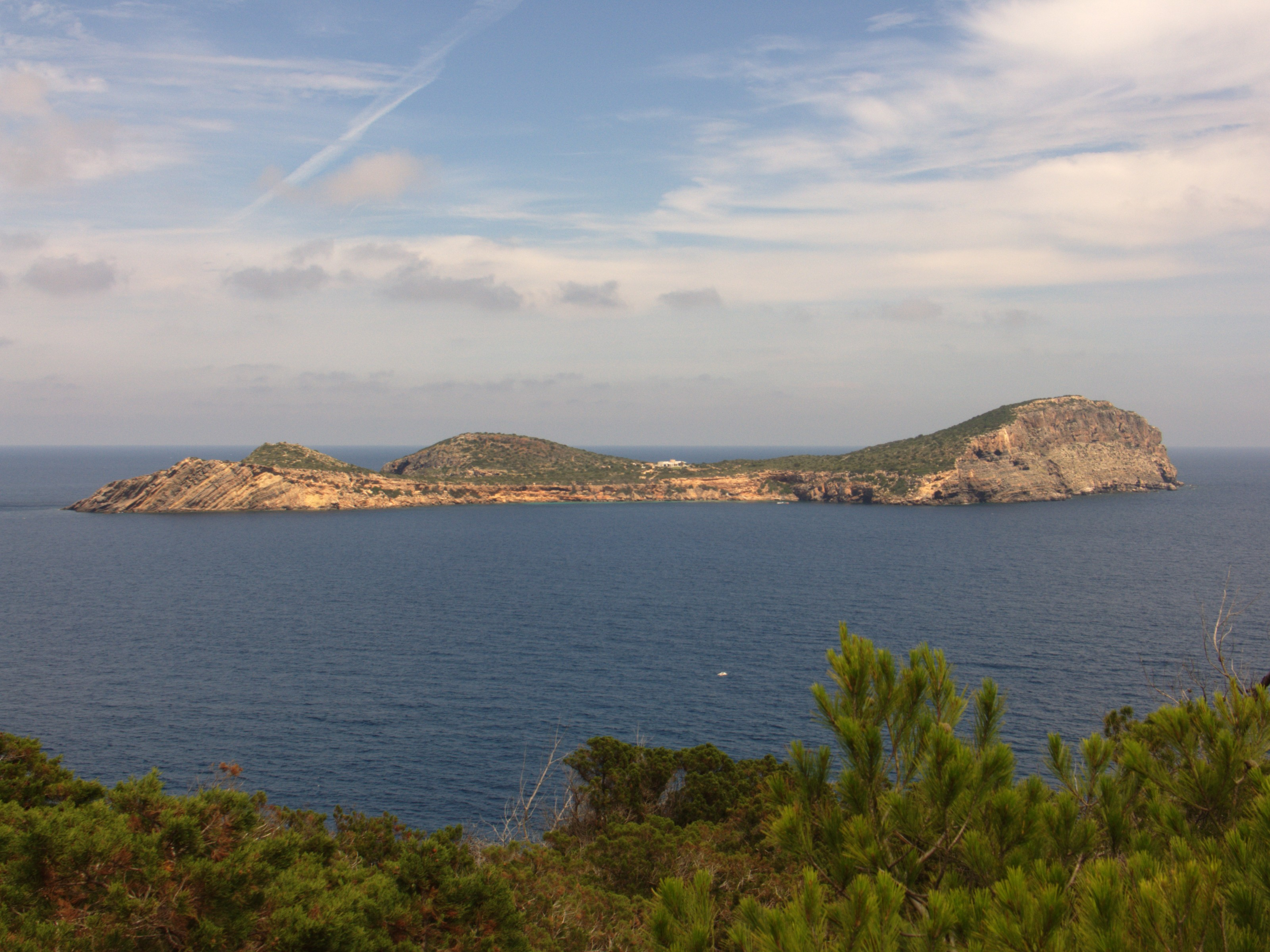 Island Tagomago in the Mediterranean Sea, taken from Punta d’en Valls on Ibiza heading east